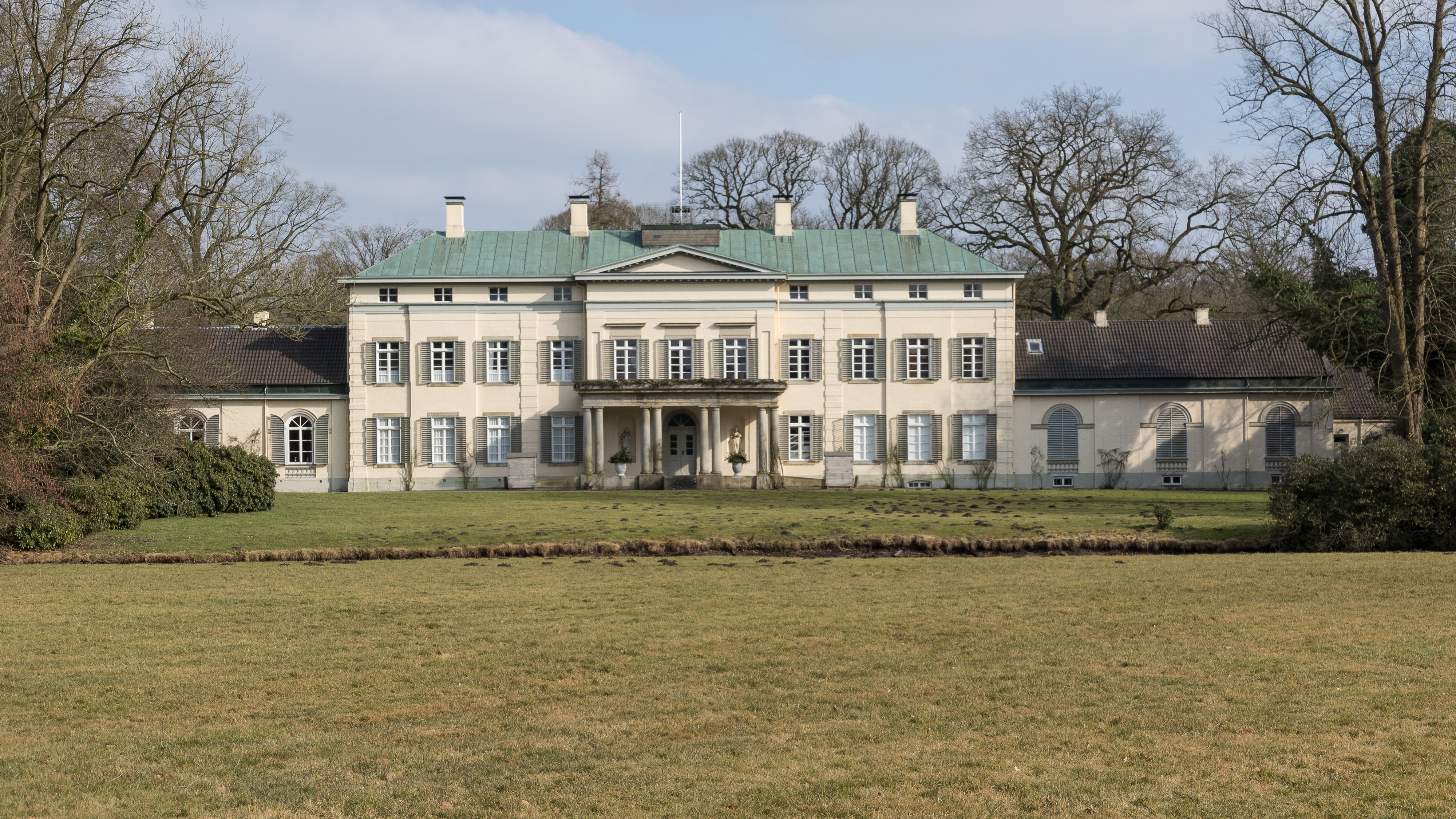 Rastede Castle, Germany